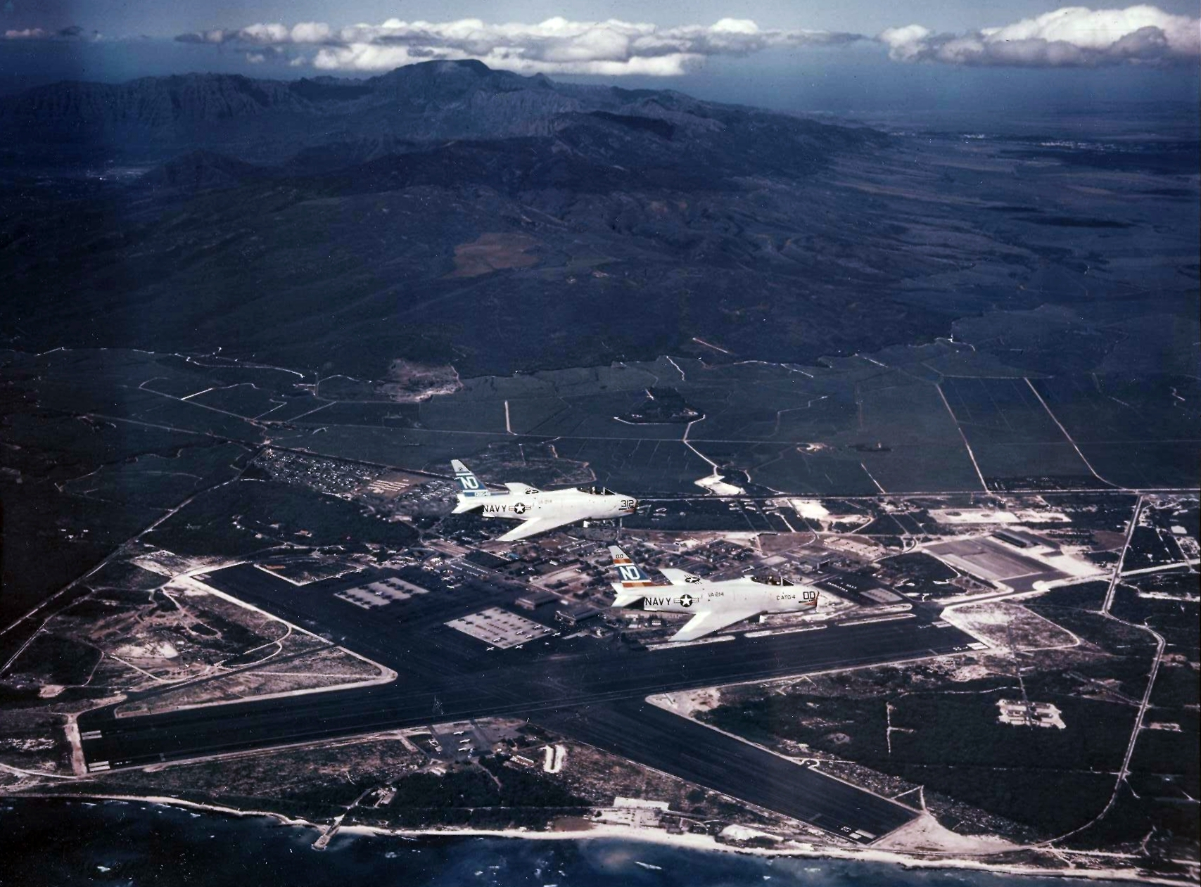 Two U.S. Navy North American FJ-4B Fury aircraft from Attack Squadron 214 (VA-214) "Volunteers" in flight over Naval Air Station Barbers Point, Hawaii (USA), on 26 January 1958. VA-214 was assigned to Air Task Group 4 (ATG-4) aboard the aircraft carrier USS Hornet (CVA-12) for a deployment to the Western Pacific from 6 January to 2 July 1958. The aircraft in front is the personal aircraft of the ATG-4 Air Group Commander (CAG). VA-214 was in existence for only a little more than three years, being established on 30 March 1955 (as VF-214) and disestablished on 1 August 1958.